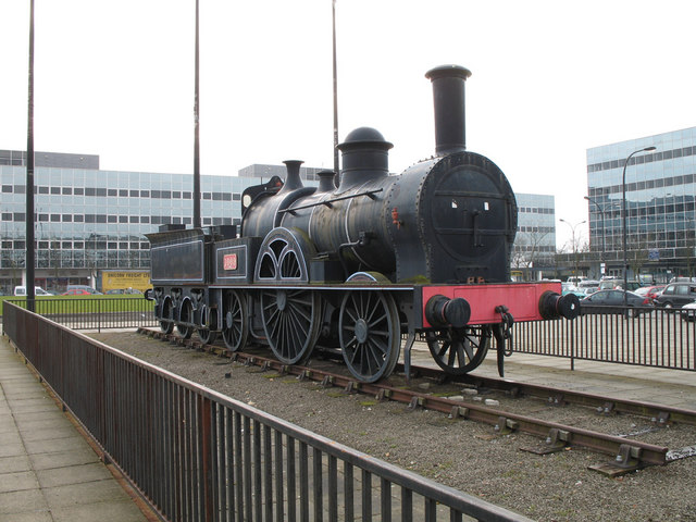 1009 Wolverton 1009 sits on a plinth in the square outside Milton Keynes Central Station. It is a replica of a LNWR Bloomer Class locomotive, designed by McConnell in the early 1850's.